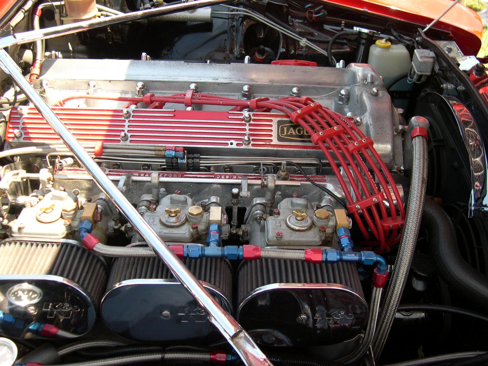 Jaguar XK6 engine Source: Photographed at the Bay State Antique Automobile Club's July 10, 2005 show at the Endicott Estate in Dedham, MA by User:Sfoskett